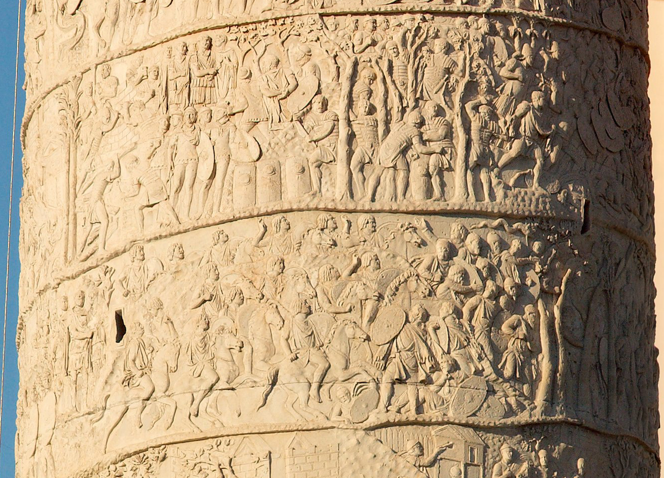 Detailed view of Trajan's column. Panorama from different images, exif taken from the middle one. Cut into pieces by user:sailko